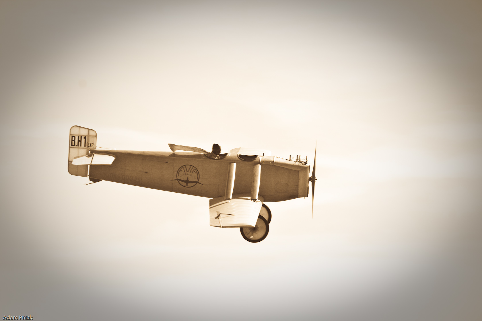 Avia BH-1 (Czech Republic, I World War era airplane)